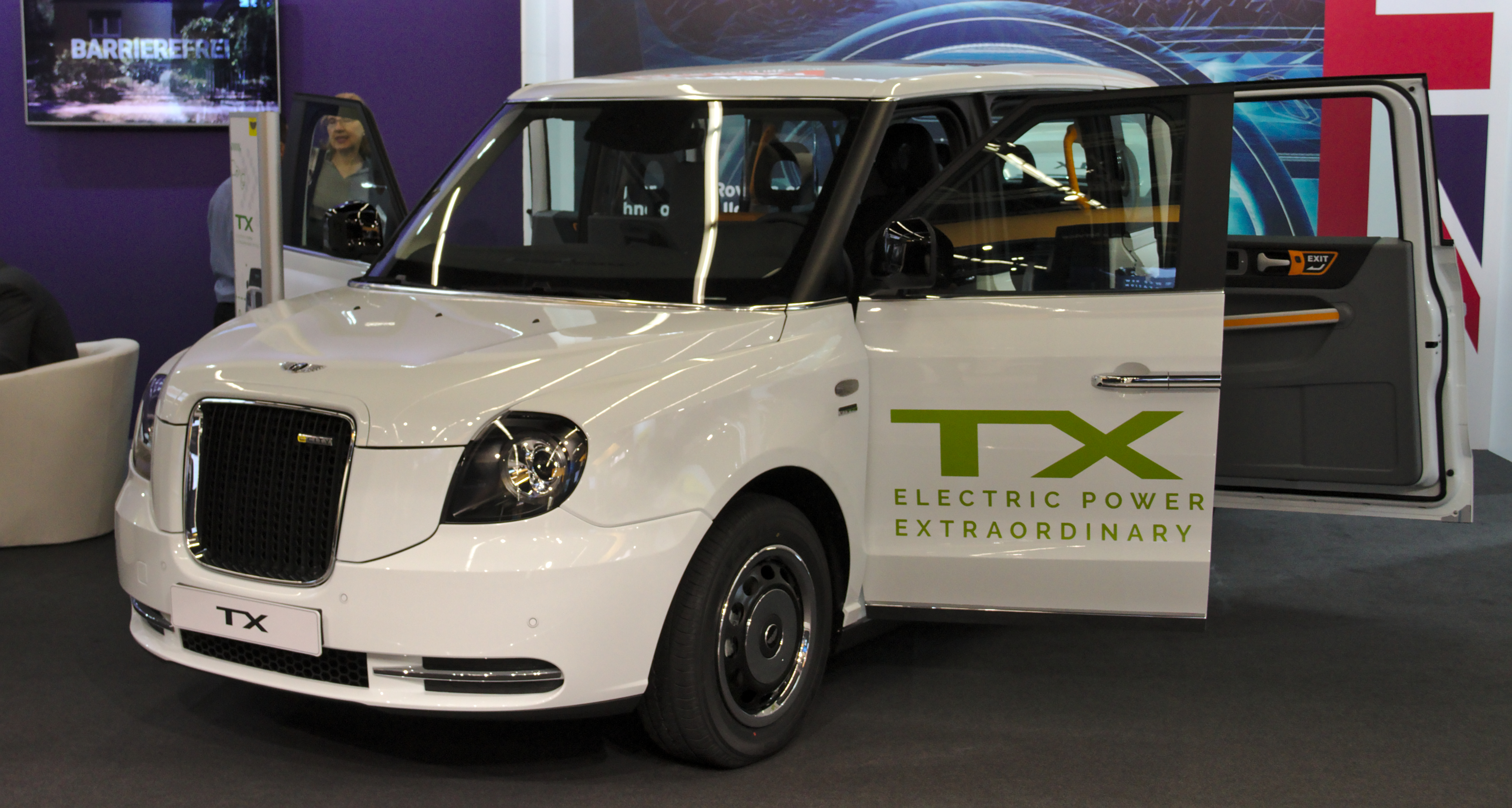 LEVC_TX_eCity at IAA 2019